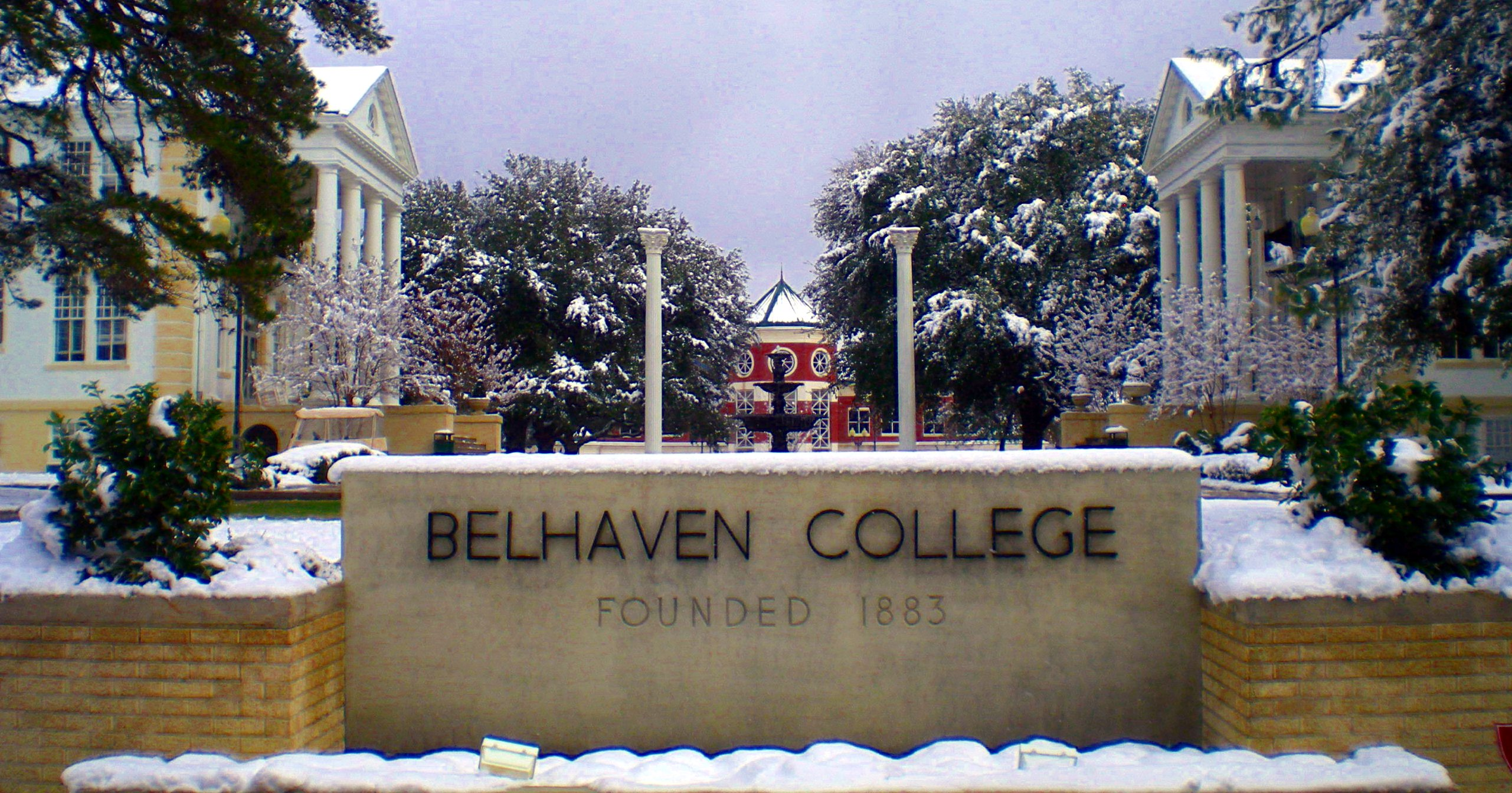 Picture of the "Belhaven College Stone Sign" on the Campus of Belhaven University, facing East from Peachtree Street in Jackson, Mississippi.